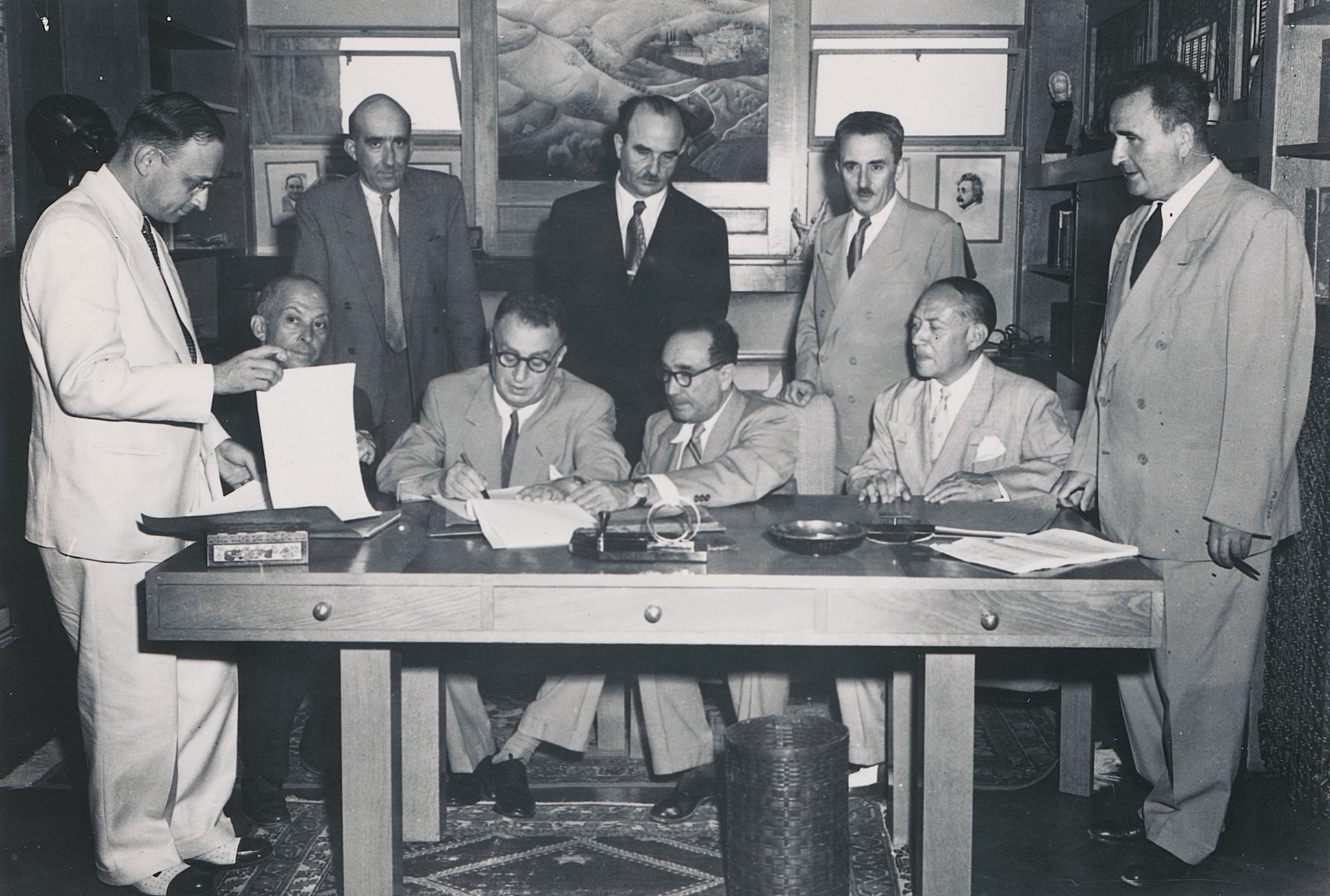 Levi Eschol